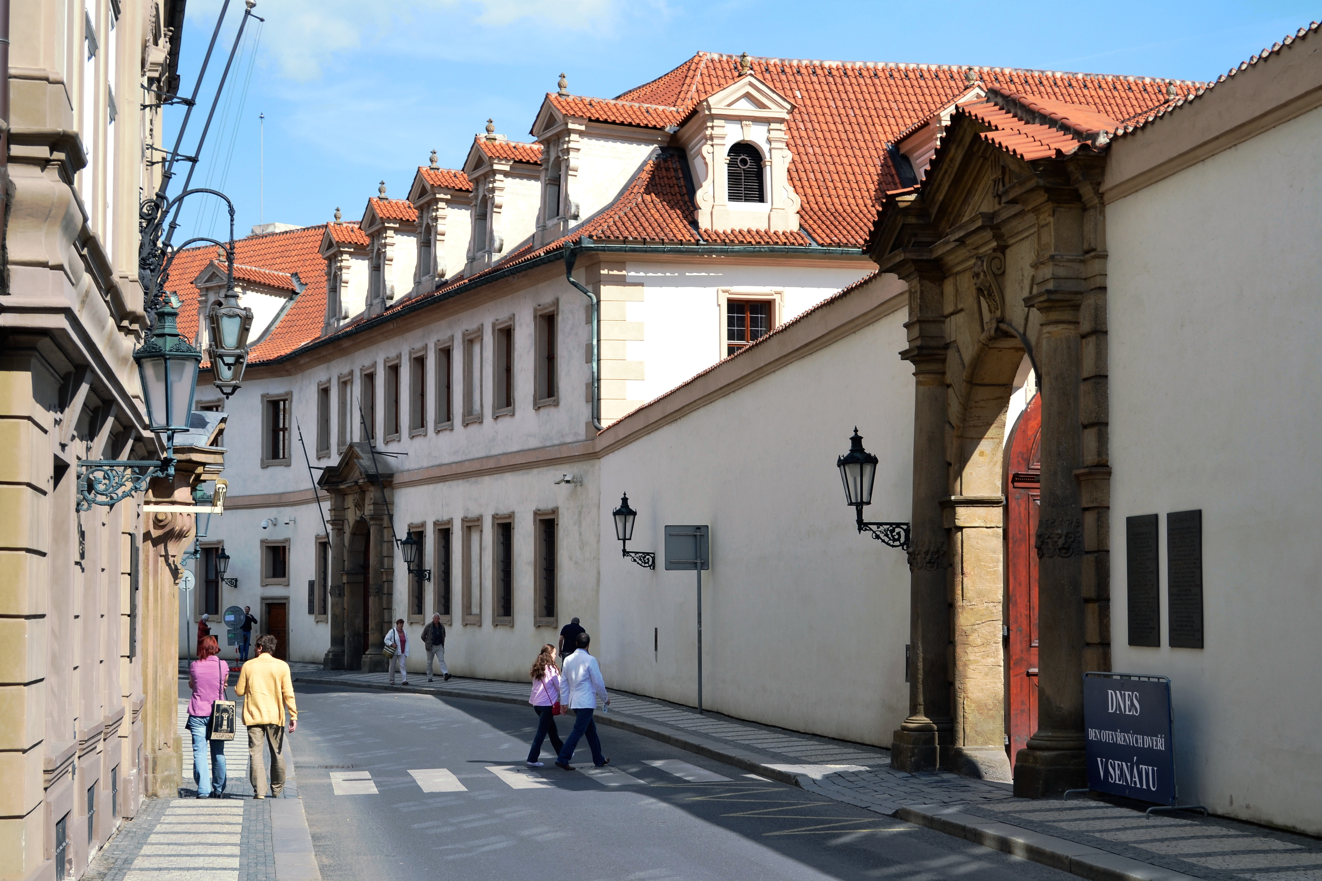 Valdstejn Palace in Malá Strana, Prague 1, Czech Republic. View from Valdštejnská street.